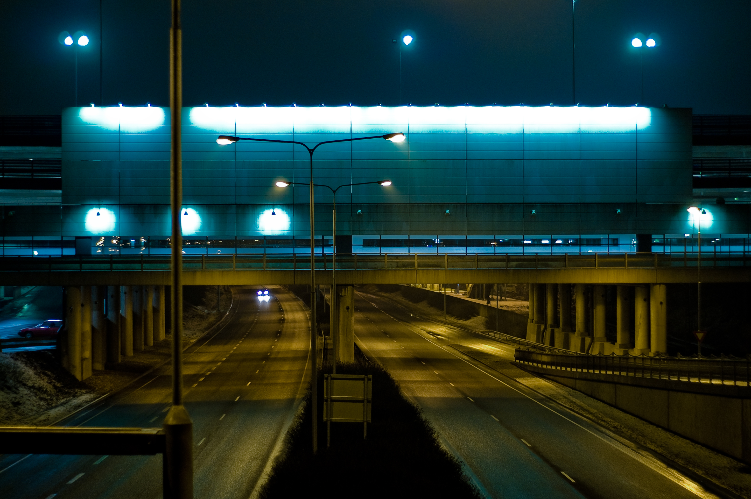 The parking hall of Turku University Central Hospital (TYKS) over the highway 1 (E18) in Turku, Finland, seen from Hämeensilta bridge towards Helsinki